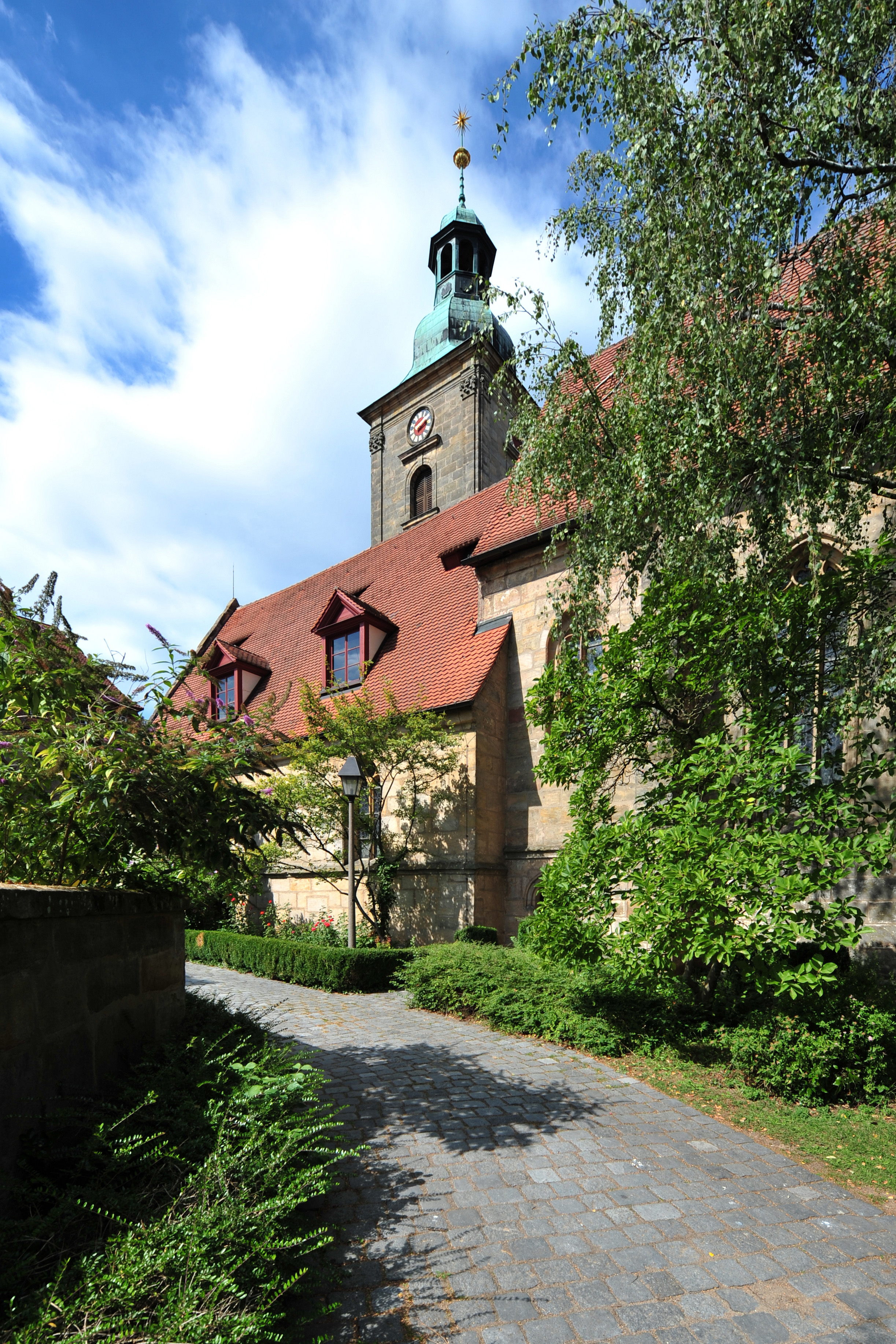 Kalchreuth Kirche St. Andreas This is a photograph of an architectural monument.